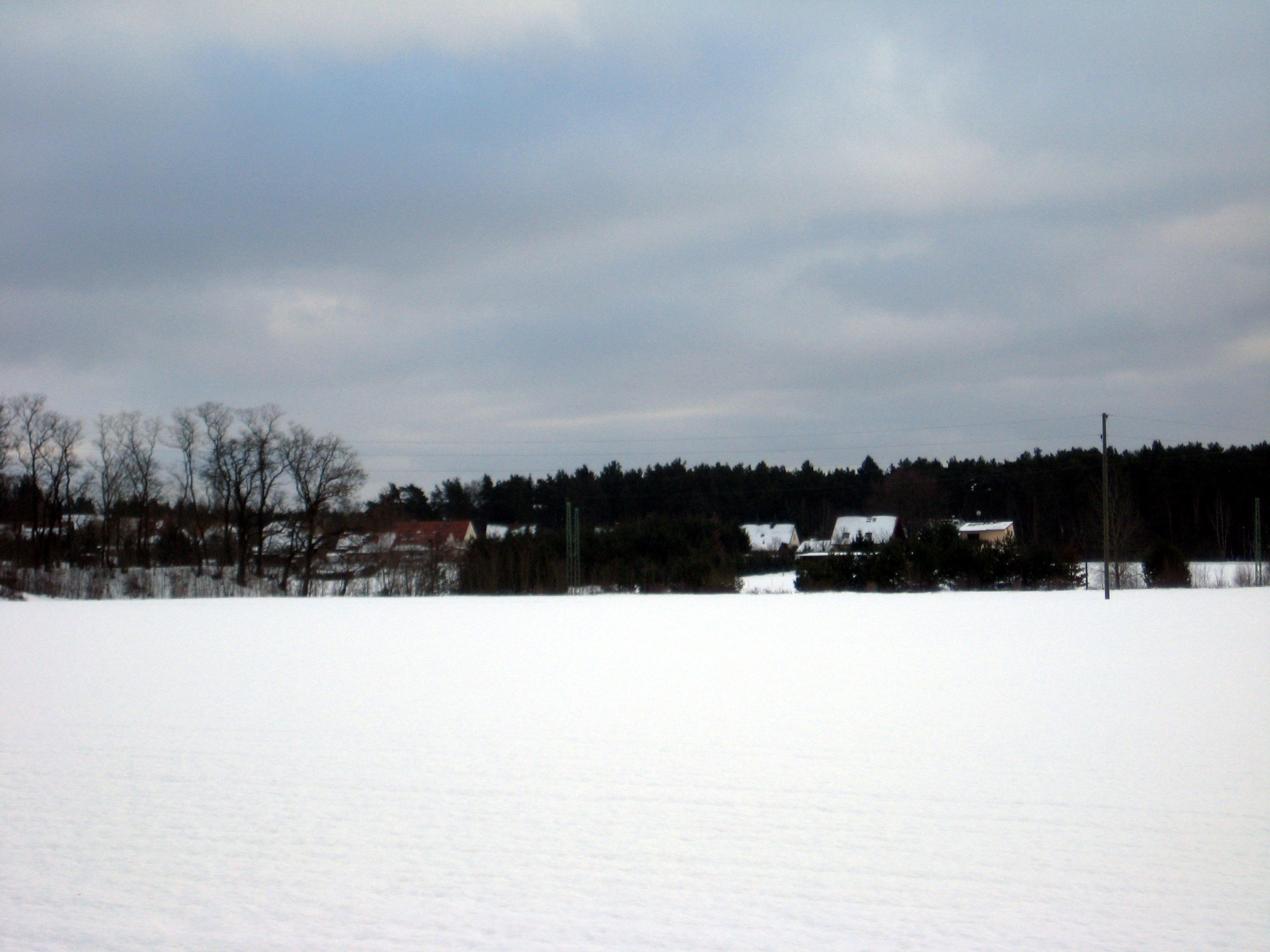 Village Kerkwitz, part of Schenkendöbern in the Lausitz, Brandenburg, Germany.